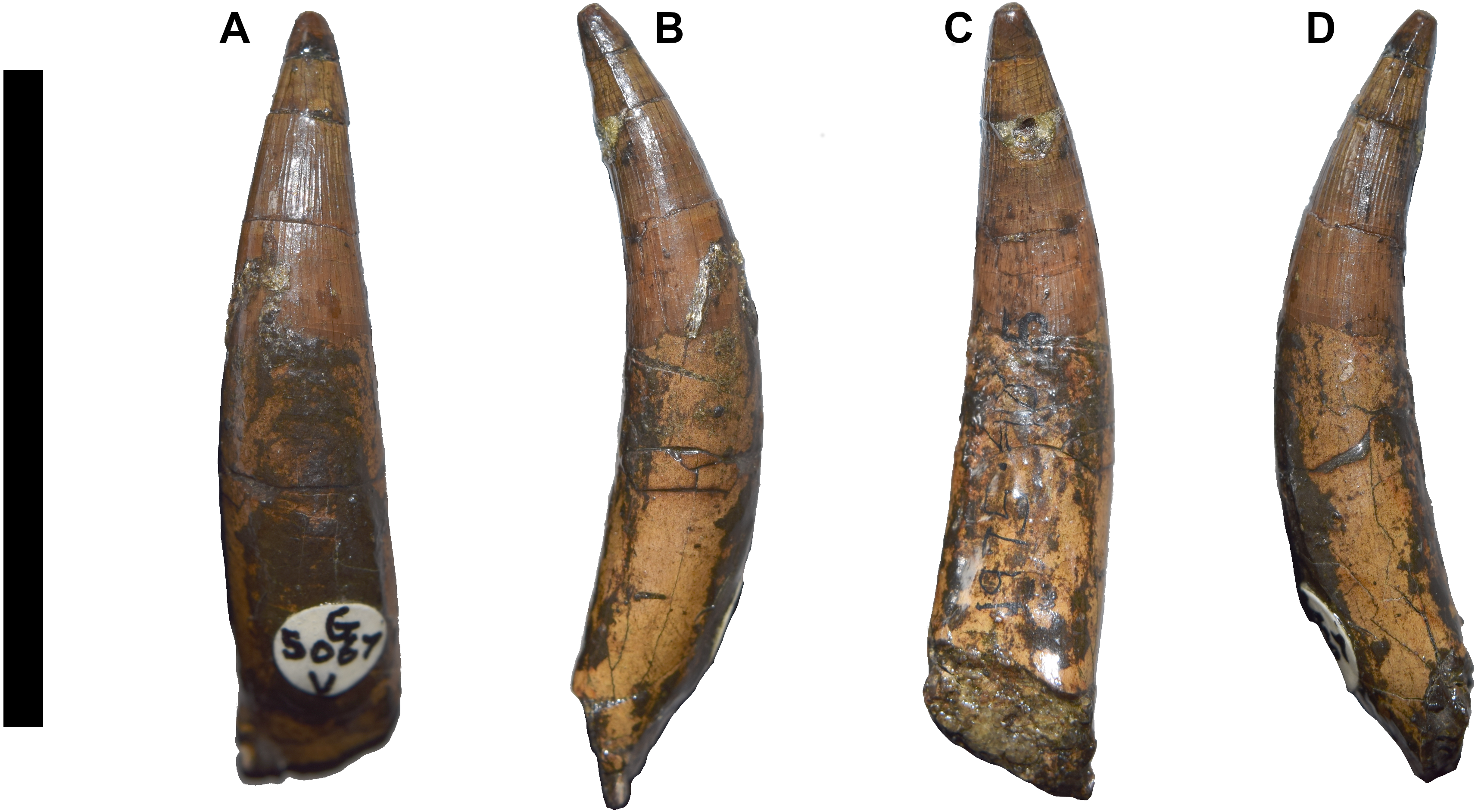 DORCM G.05067iv tooth of Bathysuchus megarhinus gen. et. sp. nov. A, tooth in labial view. B, tooth medial-mesial view. C, tooth in lingual view. D, tooth in mesial-medial view. Scale bar equals 3 cm.